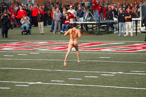 This guy went streaking at the Harvard/Yale game.